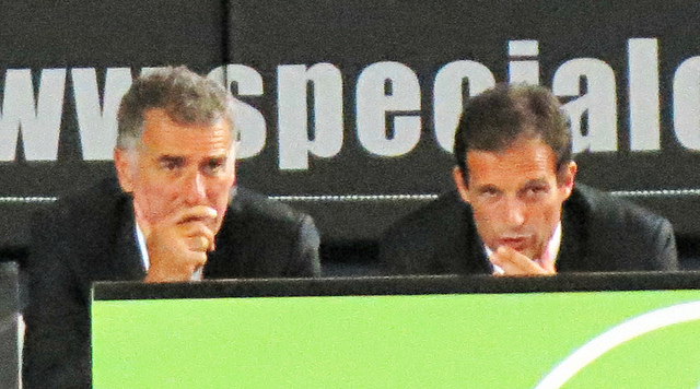 Assistant coach of A.C. Milan Mauro Tassotti and head coach of A.C. Milan Massimiliano Allegri coaching A.C. Milan.